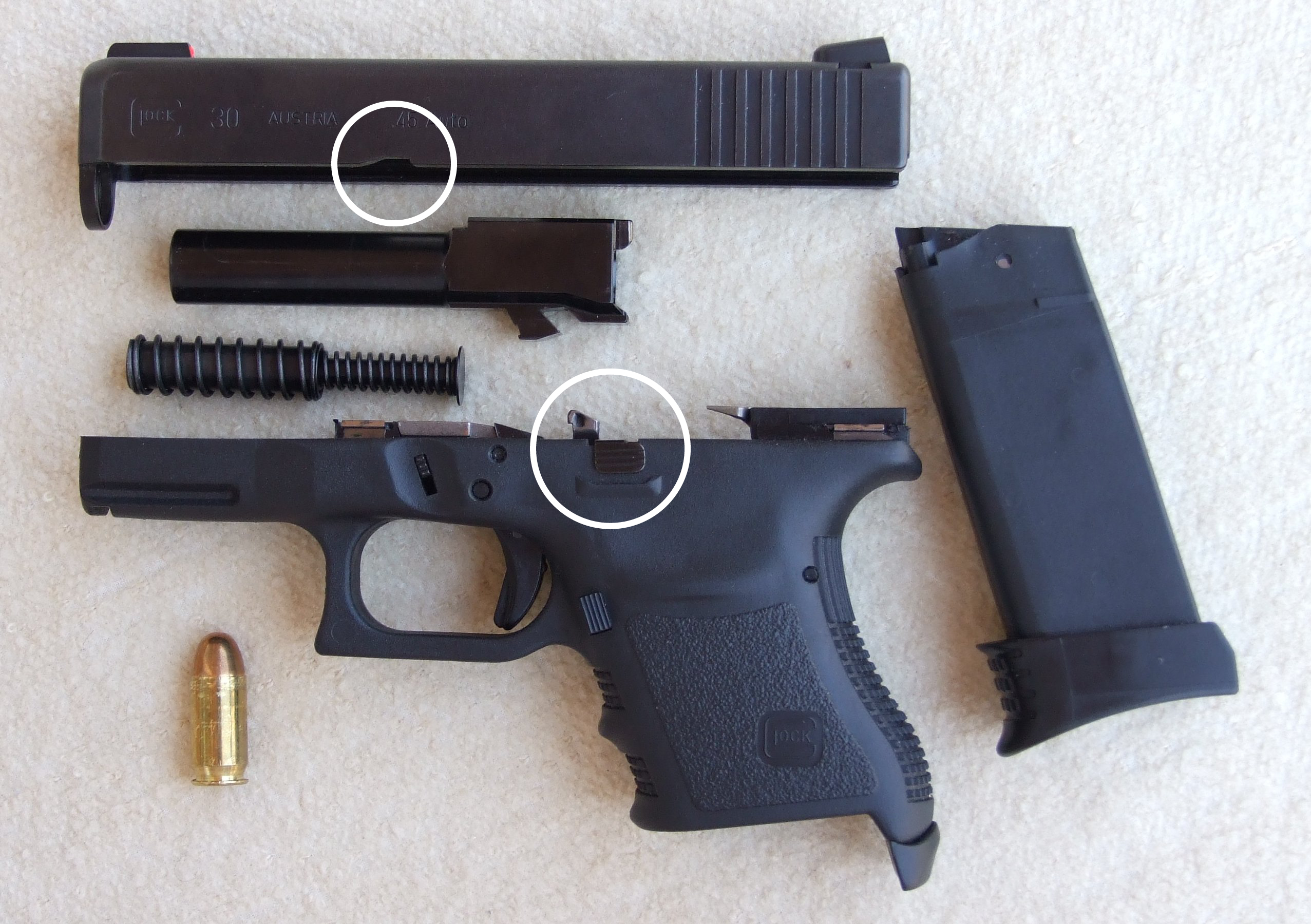 An autopistol's slide stop, with its components exposed.